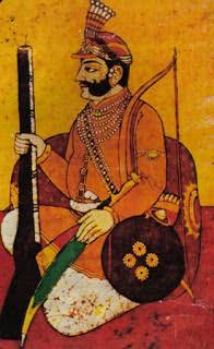 This is a painting of Maharaja Chhatrasal, the ruler of Bundelkhand who ruled from 1675 to 1731